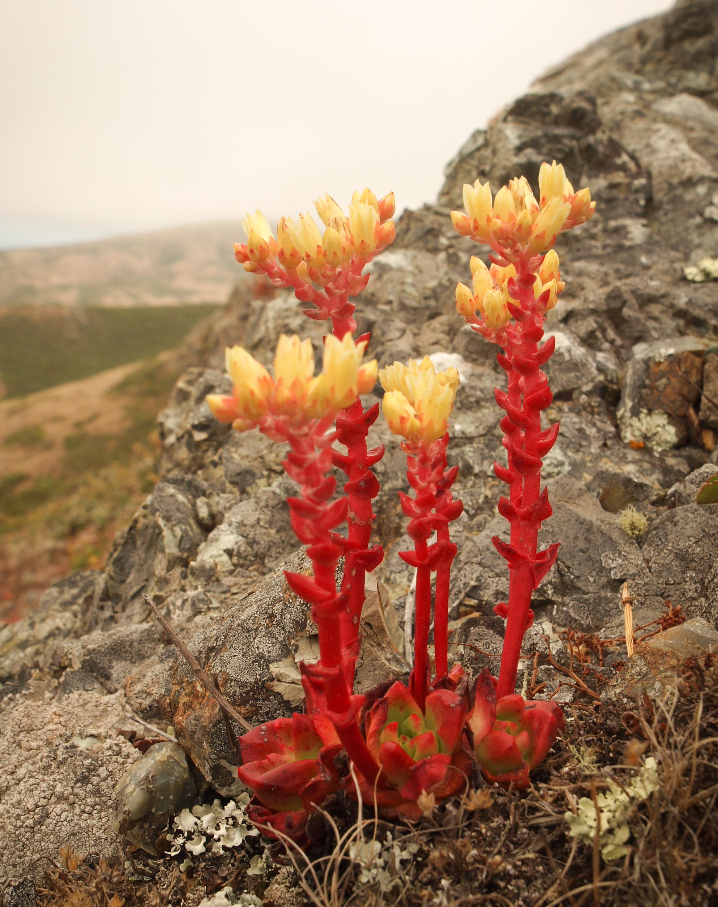 Dudleya farinosa, Marin County, CA